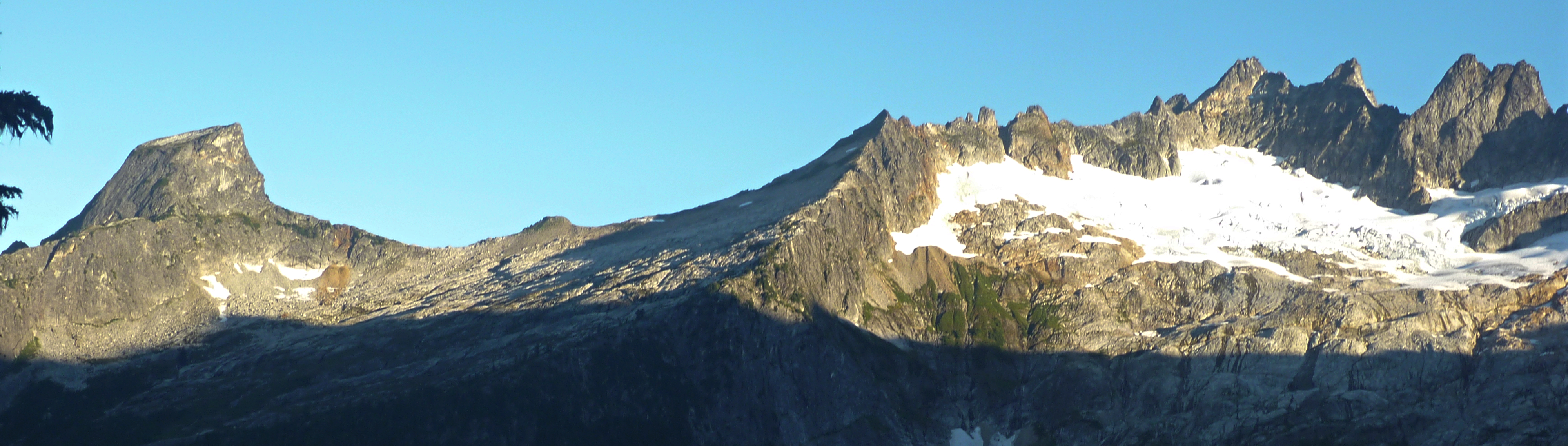 The Chopping Block of Picket Range